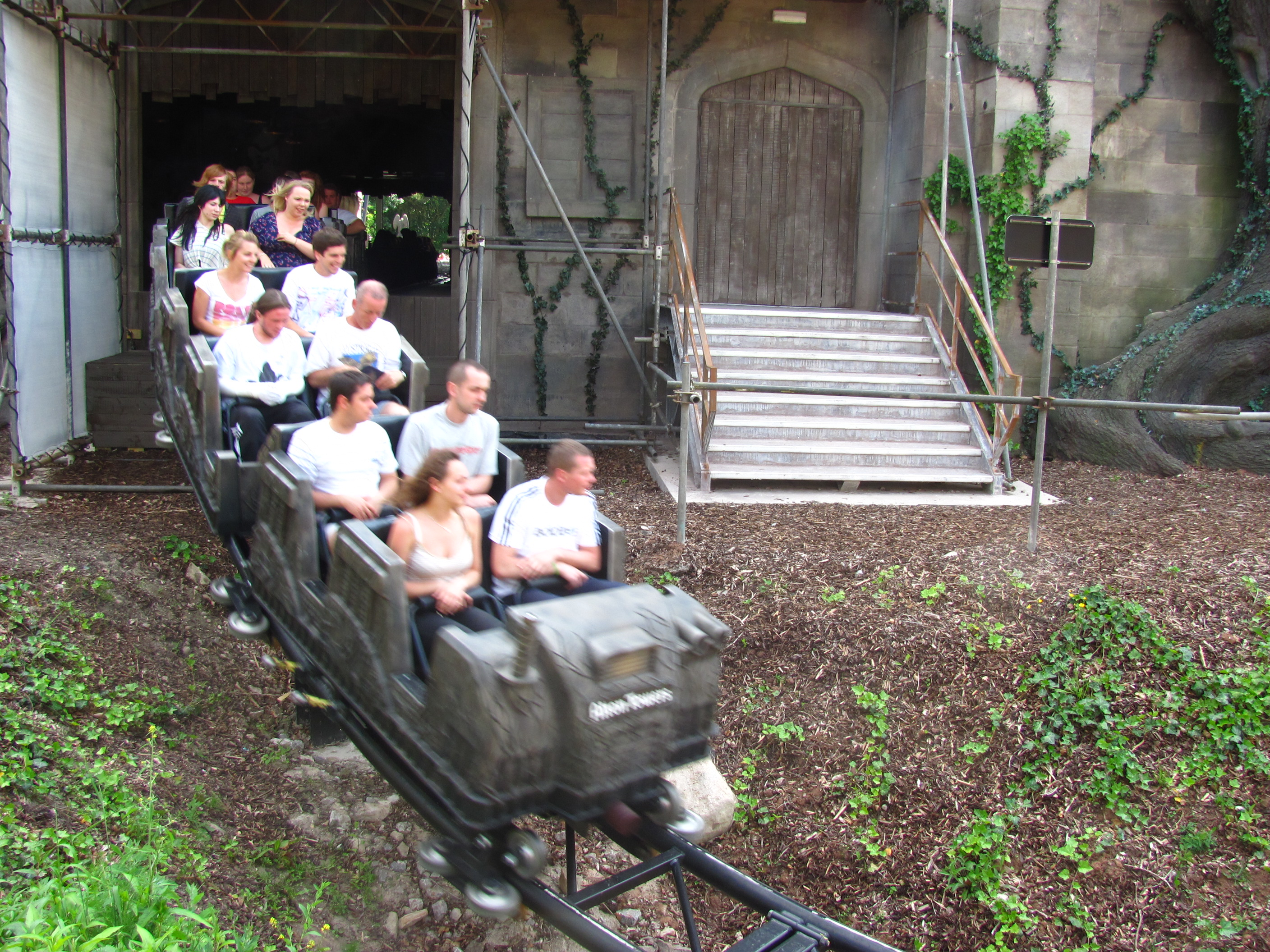 Alton Towers 055